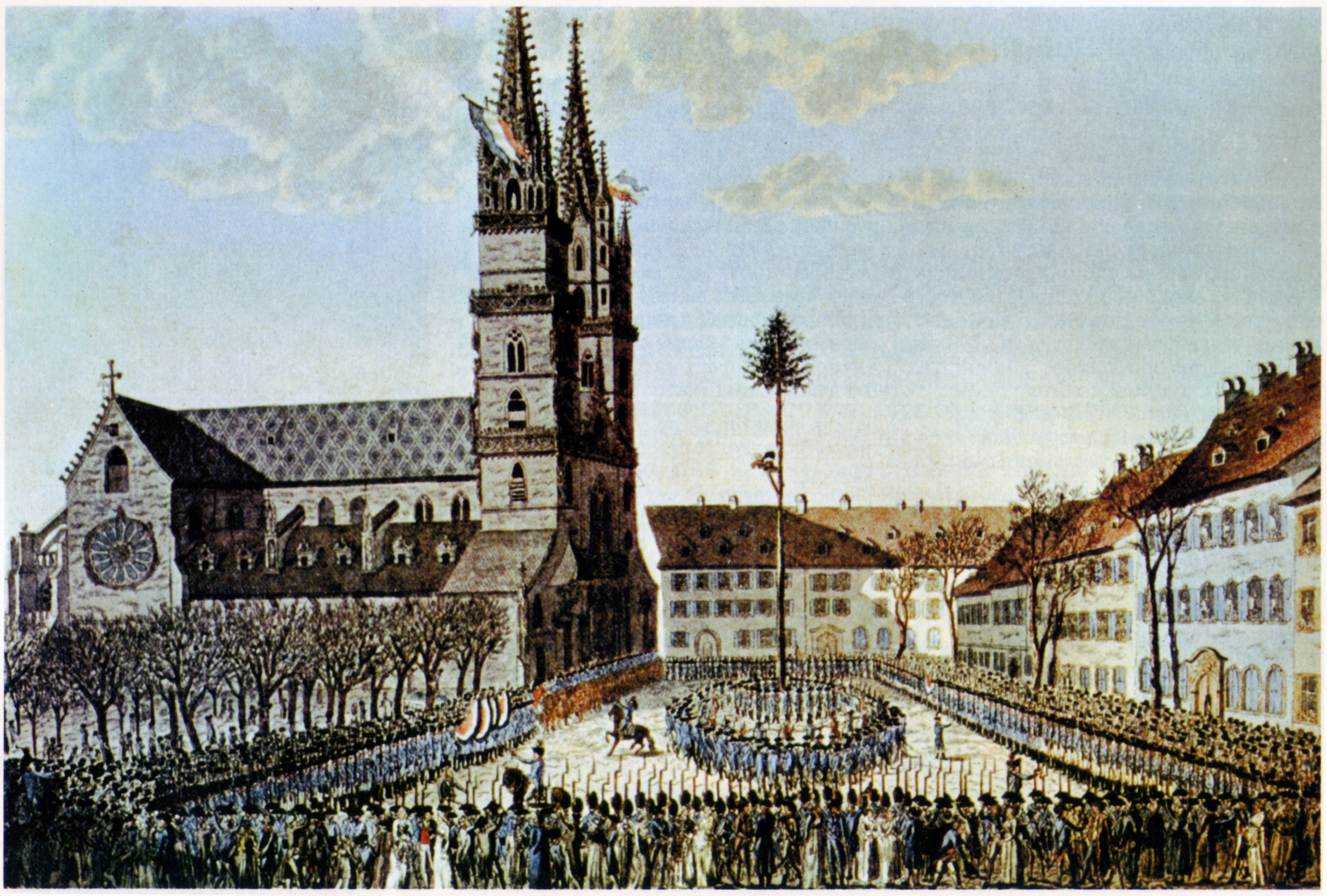 Basel celebrating the fraternization with France during the Helvetic Revolution on the Münsterplatz, 22 January 1798, coloured etching